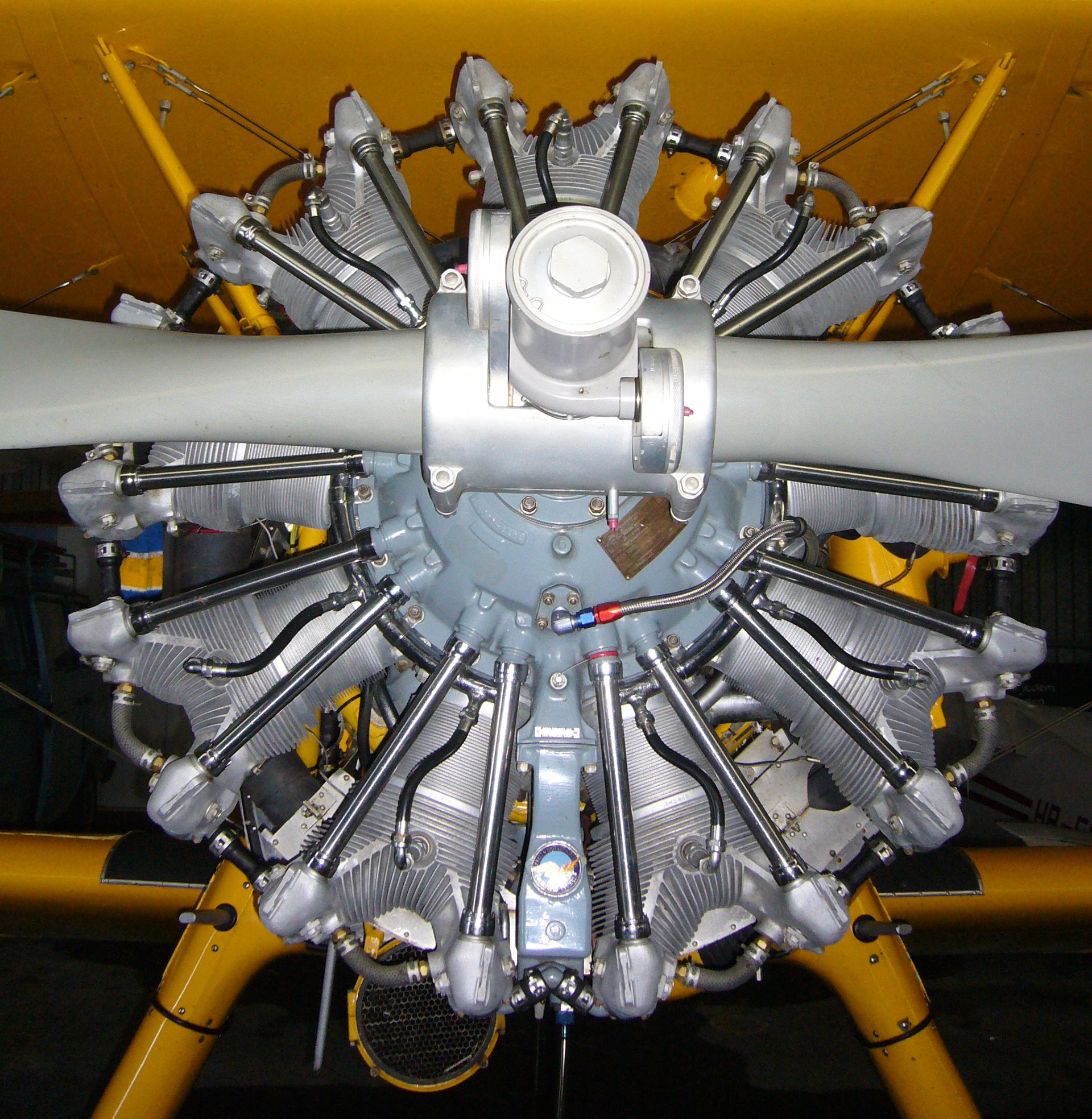 Pratt & Whitney R-985 Wasp Junior